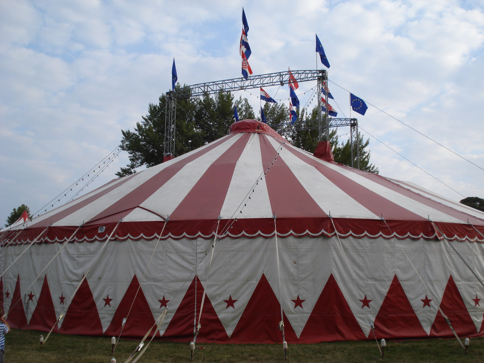 Austrian circus "Safari" in Čakovec, Croatia - tentHrvatski: Austrijski cirkus "Safari" u Čakovcu, Hrvatska - šator